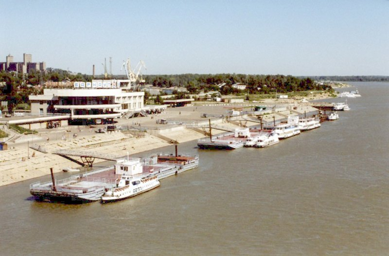 The river port of the Barnaul city (Russia), on the Ob River.